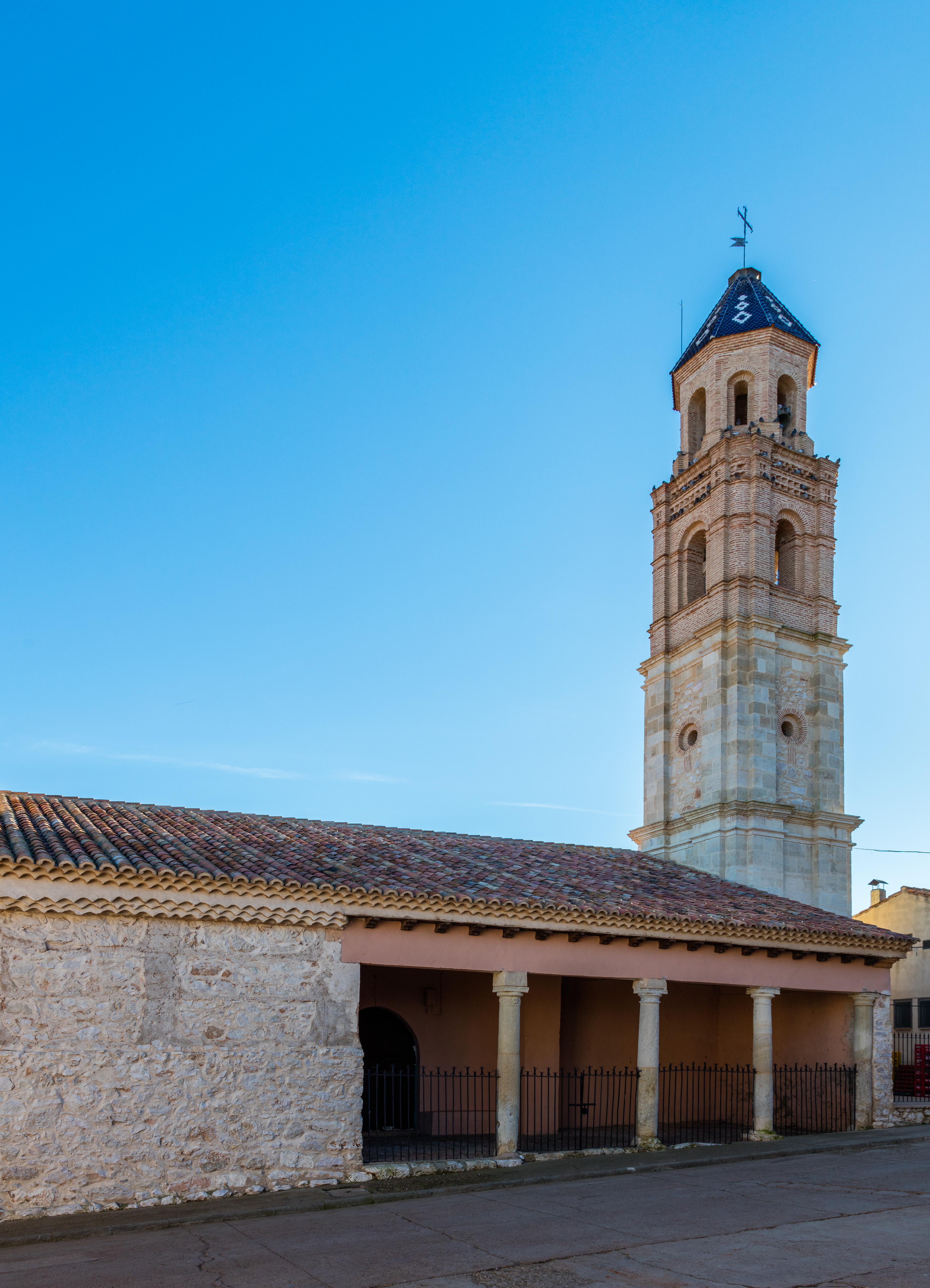 Hermitage of St Lucía, Campillo de Aragón, Saragossa, Spain